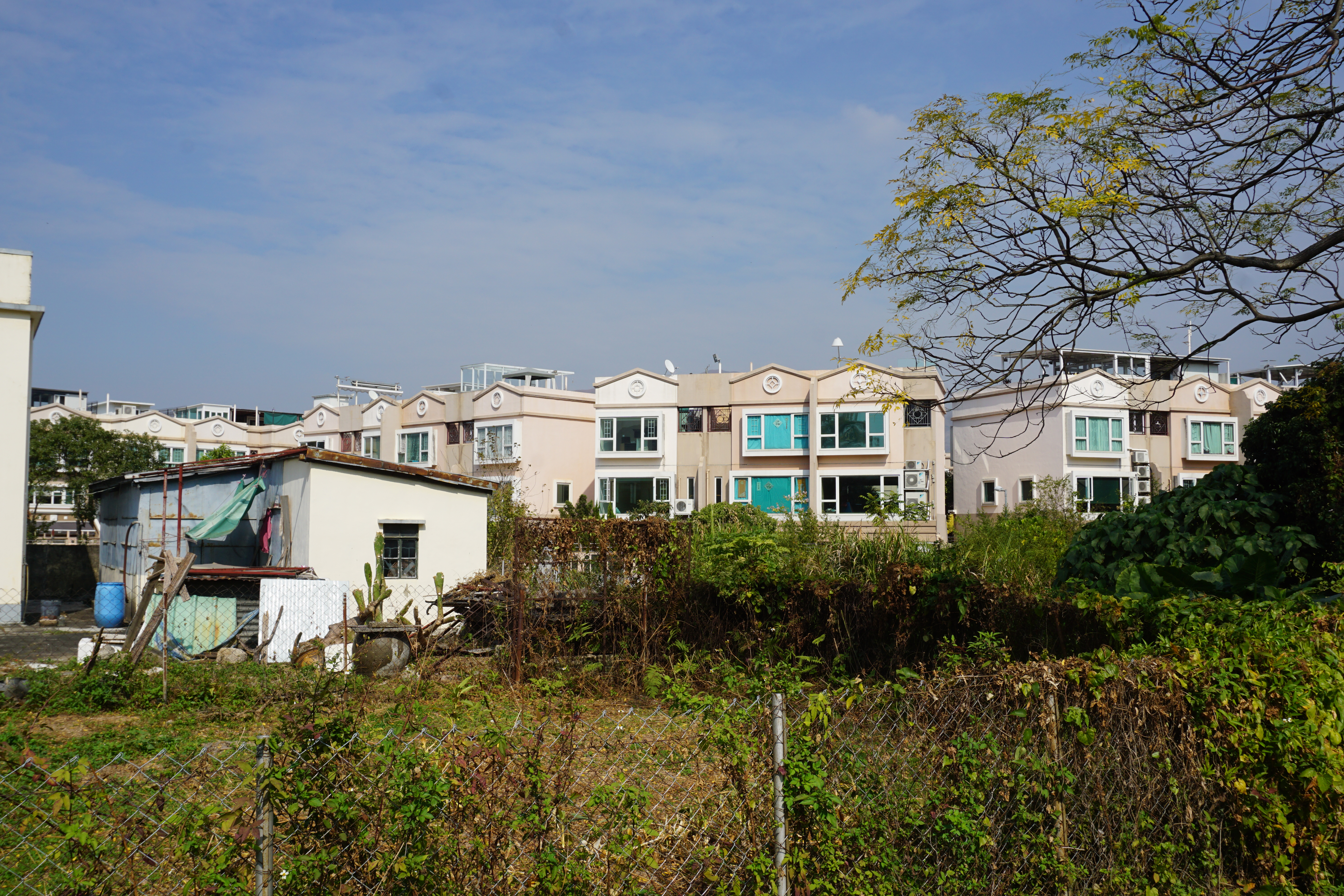 Seasons Palace in Kam Tin, Hong Kong.